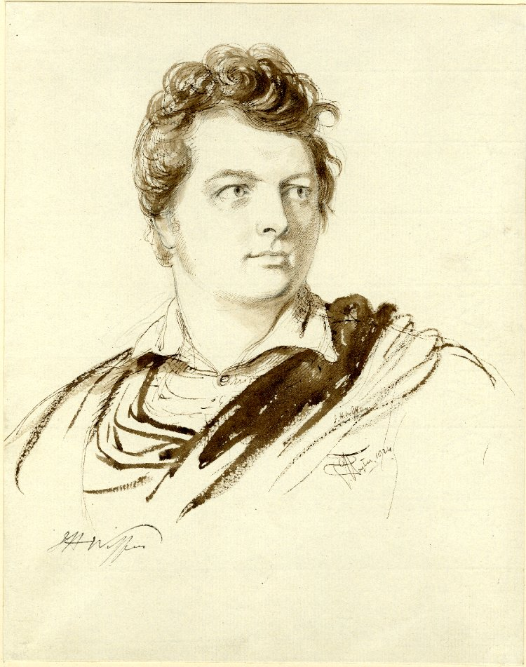 "Portrait of Jeremiah Holmes Wiffen," pen and brown ink with brown wash over graphite, by the British artist Sir George Hayter. 255 mm x 203 mm. Courtesy of the British Museum, London.